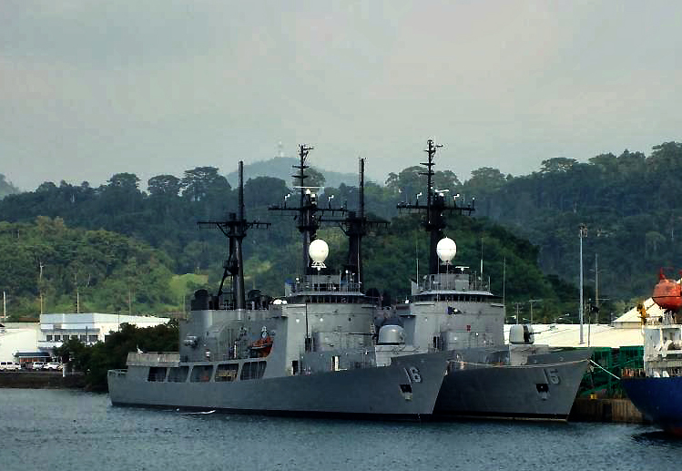 Berthed together